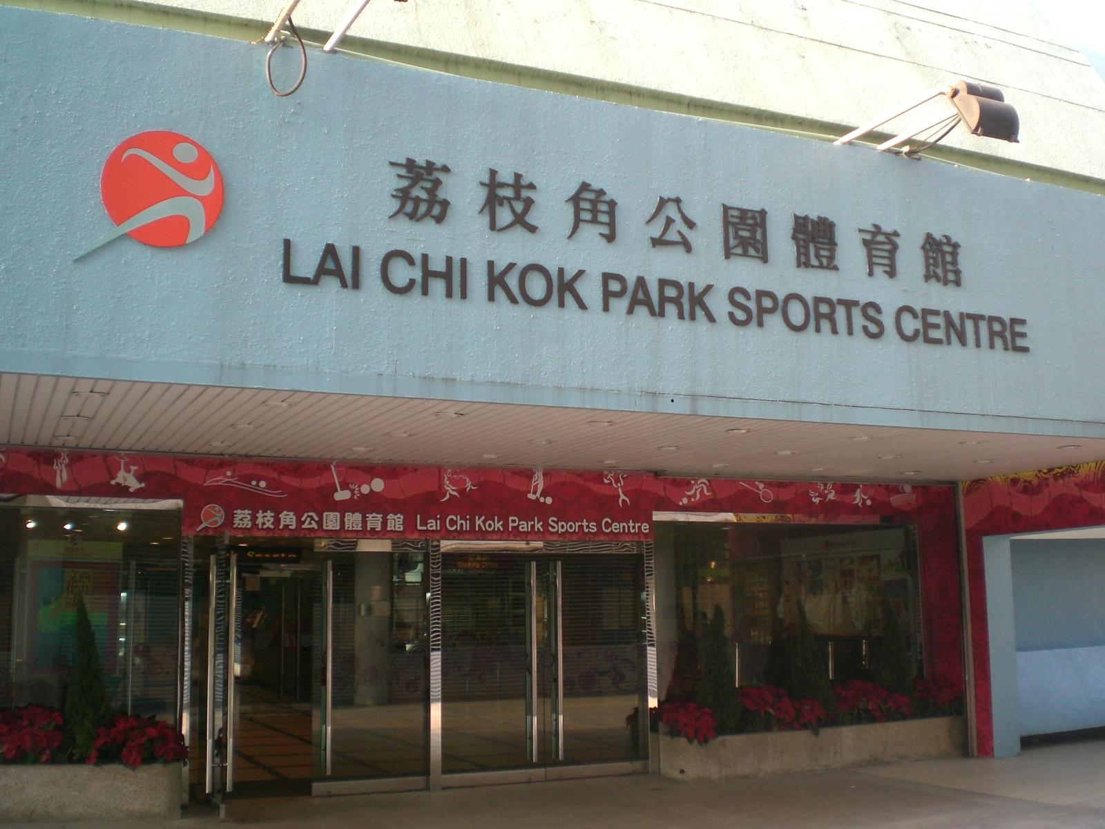 荔枝角公園體育館 Lai Chi Kok Park Sports Centre